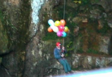 Jean Lesur (78 years old) on a rope in Padirac pich for the event of Telethon 2003.